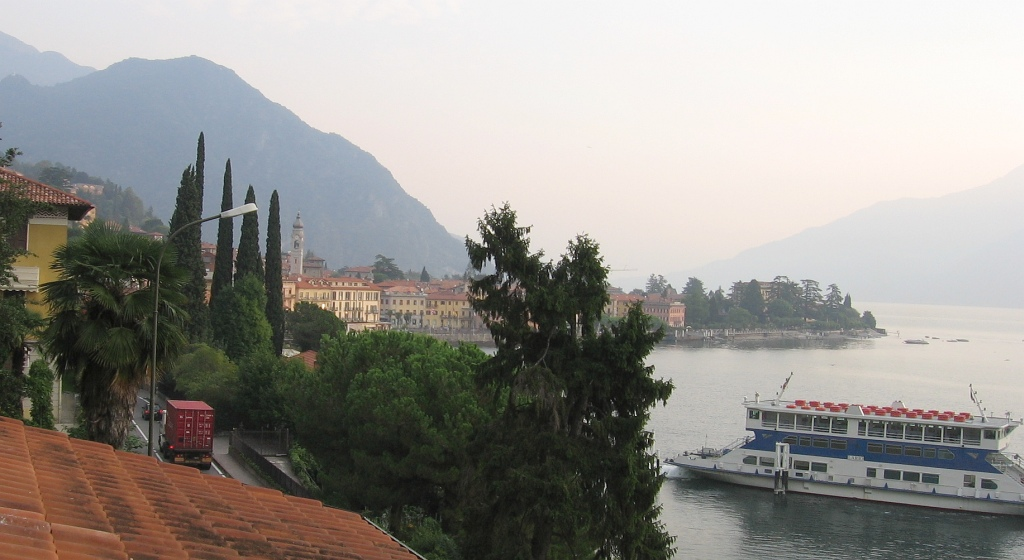 Italy - Menaggio ferry Menaggio-Varenna on Lake Como September 2005, eight o'clock in the morning